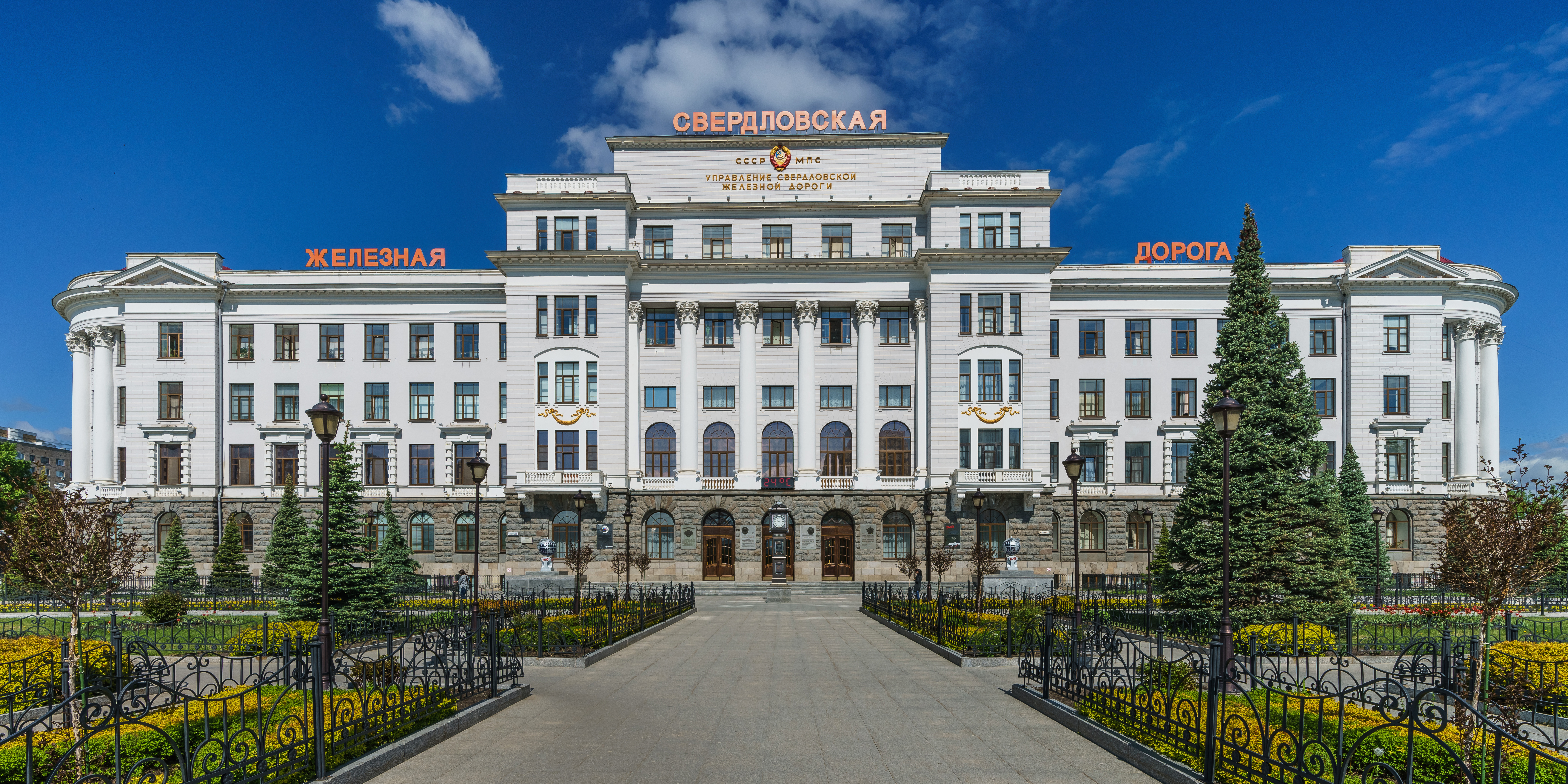 Administration building of Sverdlovsk Railway in Ekaterinburg, Russia